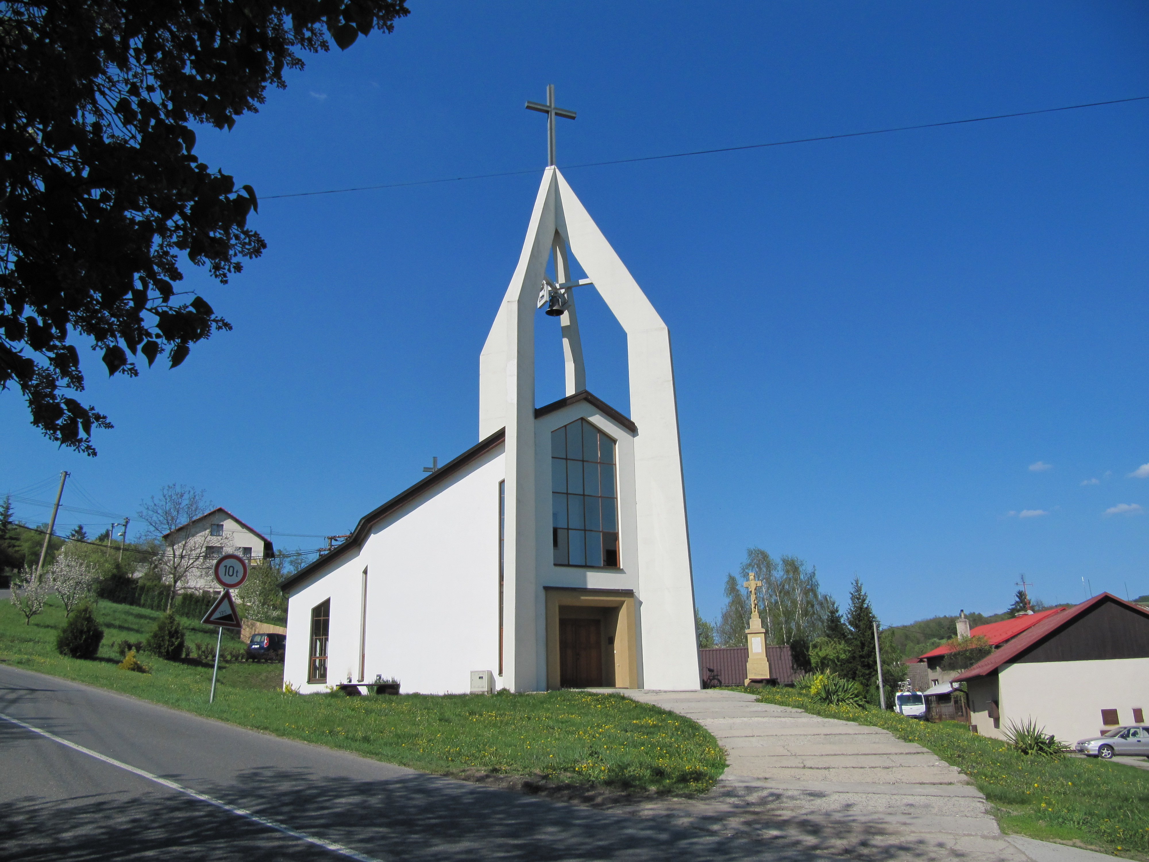 Bohuslavice u Zlína in Zlín District, Czech Republic. Chapel of the Visitation.